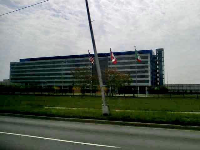 The General Motors Technical Center in Warren, Michigan